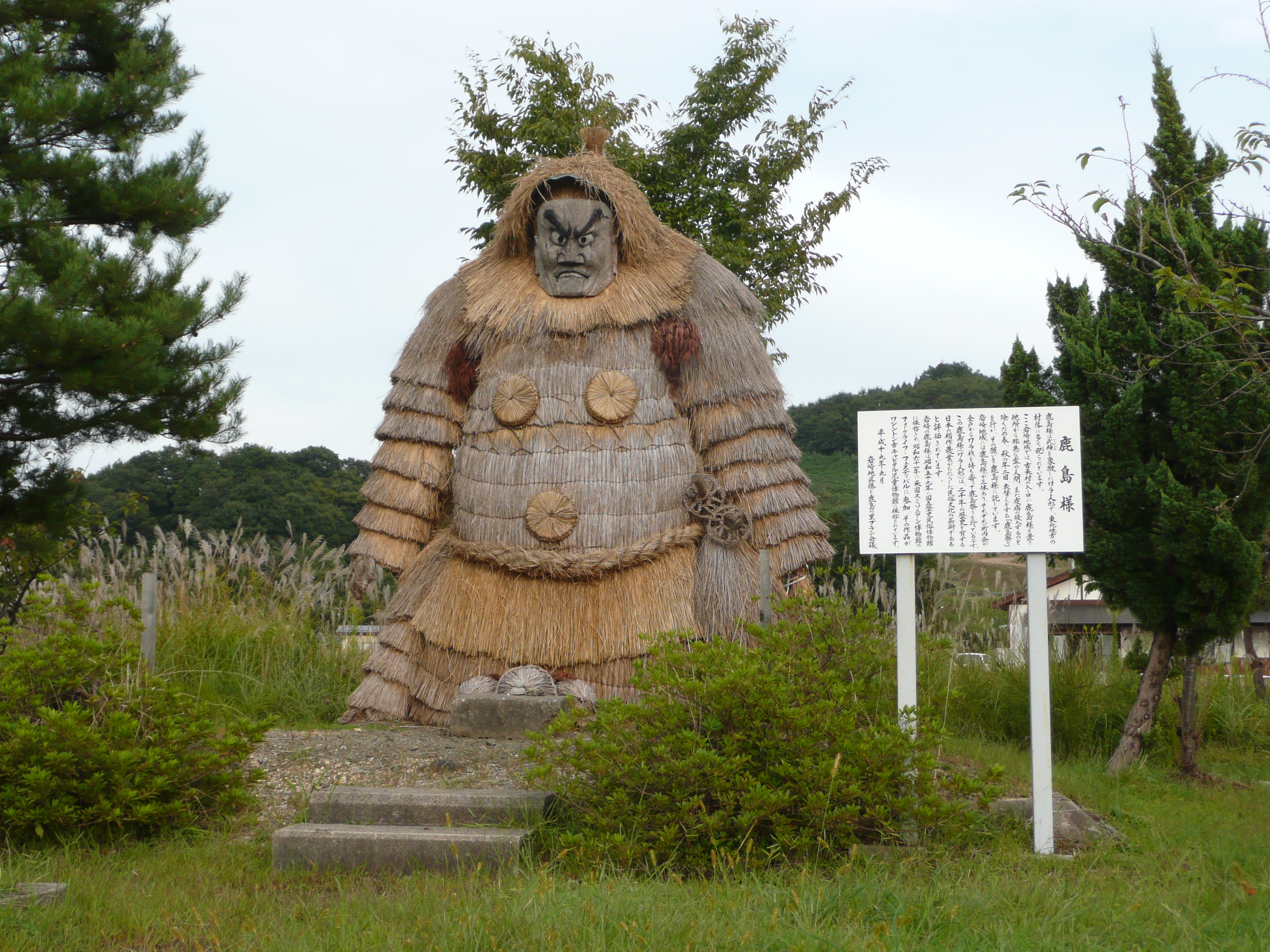 Kashima-sama, in Yuzawa, Akita.